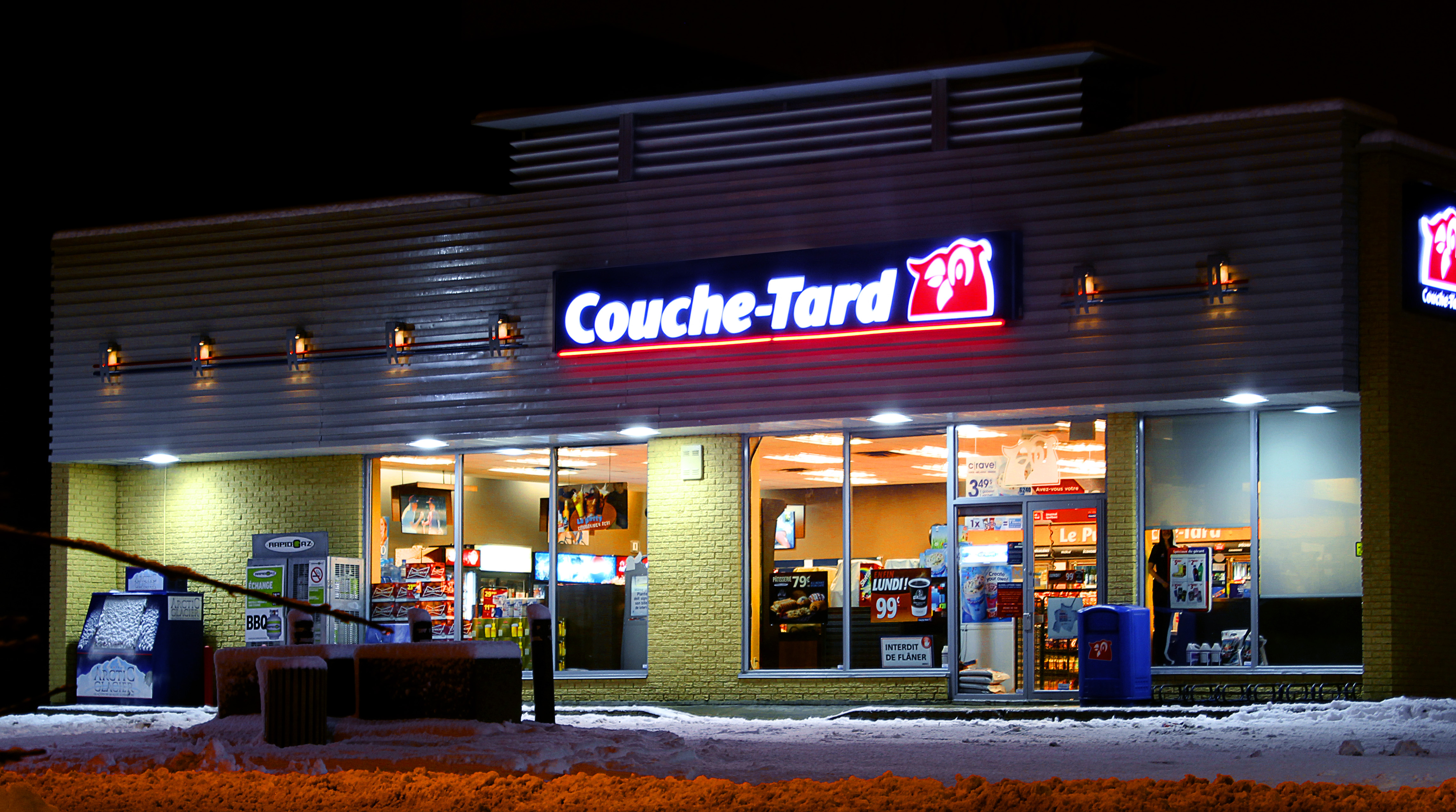 An Alimentation Couche-Tard at night in Montreal, QC. 6240, avenue Somerled